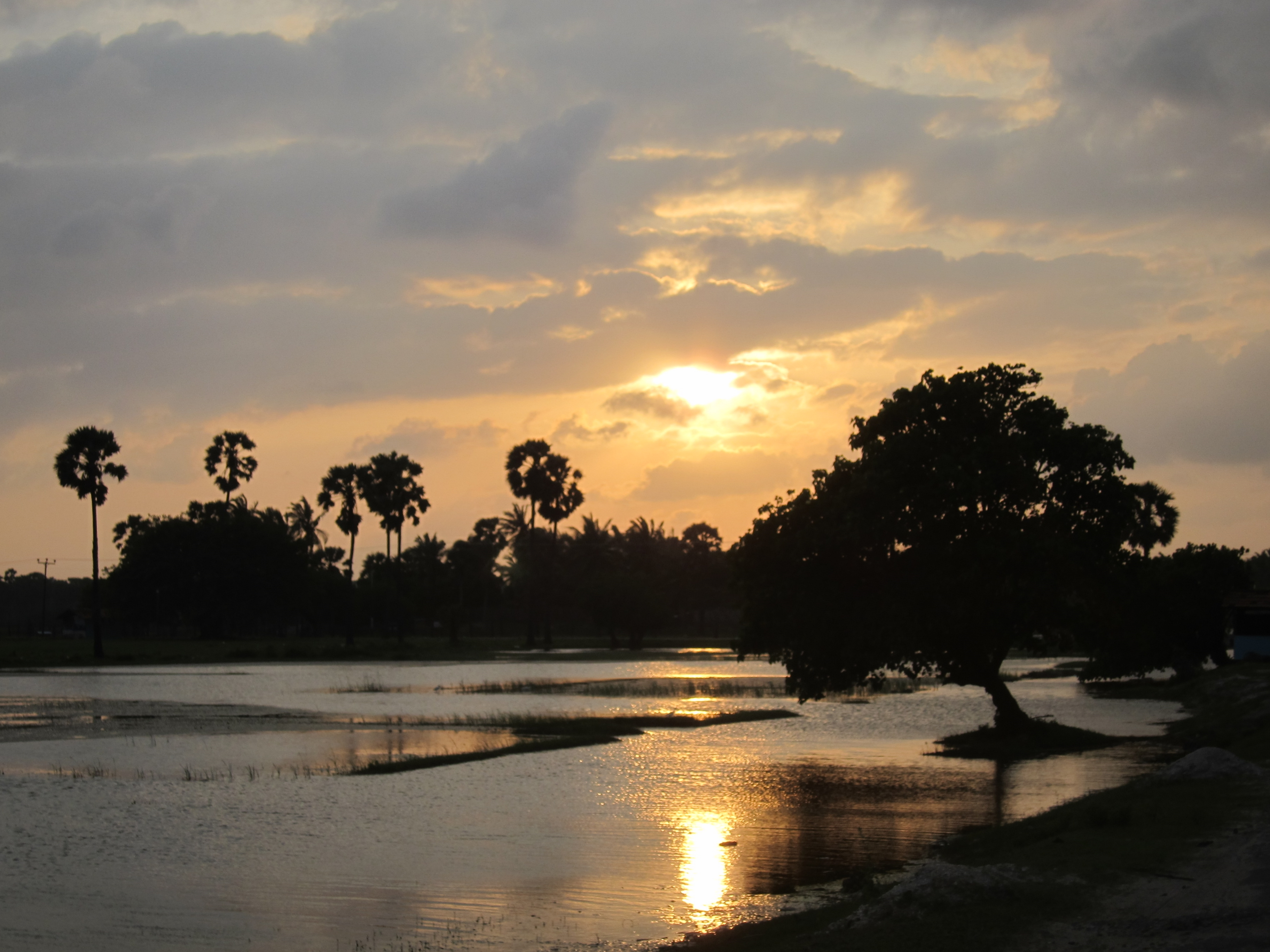 tree out in the water